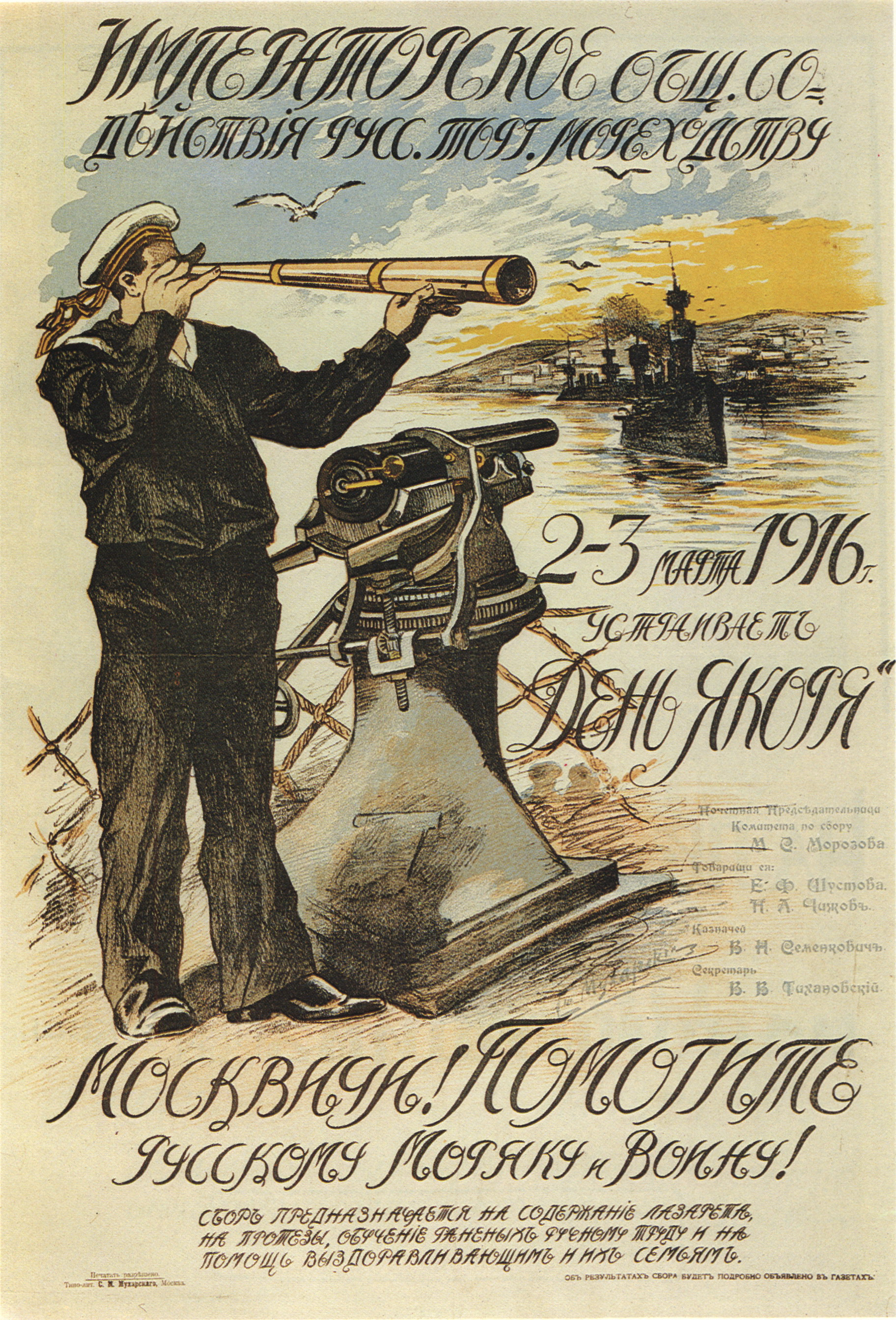 poster